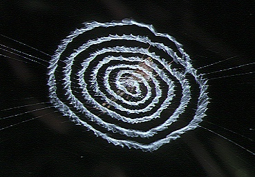 stabilimentum of Octonoba yaeyamensis from Okinawa.